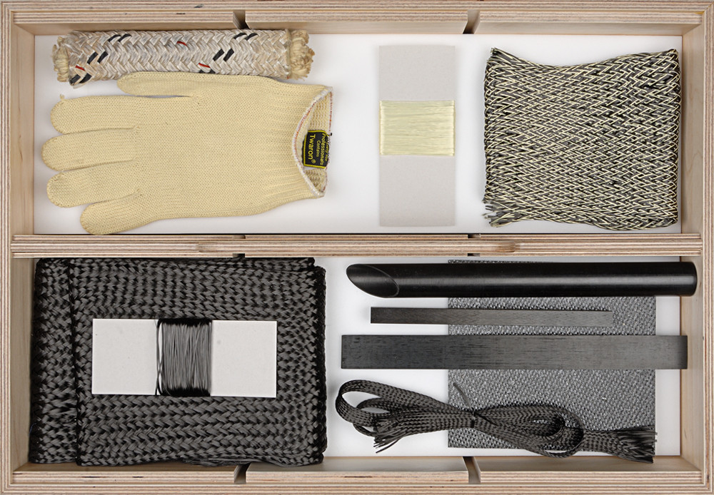 Carbon and Aramid, carbon yarn and textile, composite material, aramid glove (Twaron), cable (braided glass fibre, aramid core), aramid yarn, braided textile (aramid and carbon). Tray and samples of the textile cabinet in the Textielmuseum in Tilburg. Cabinet interior made by Simone de Waart, Material Sense.